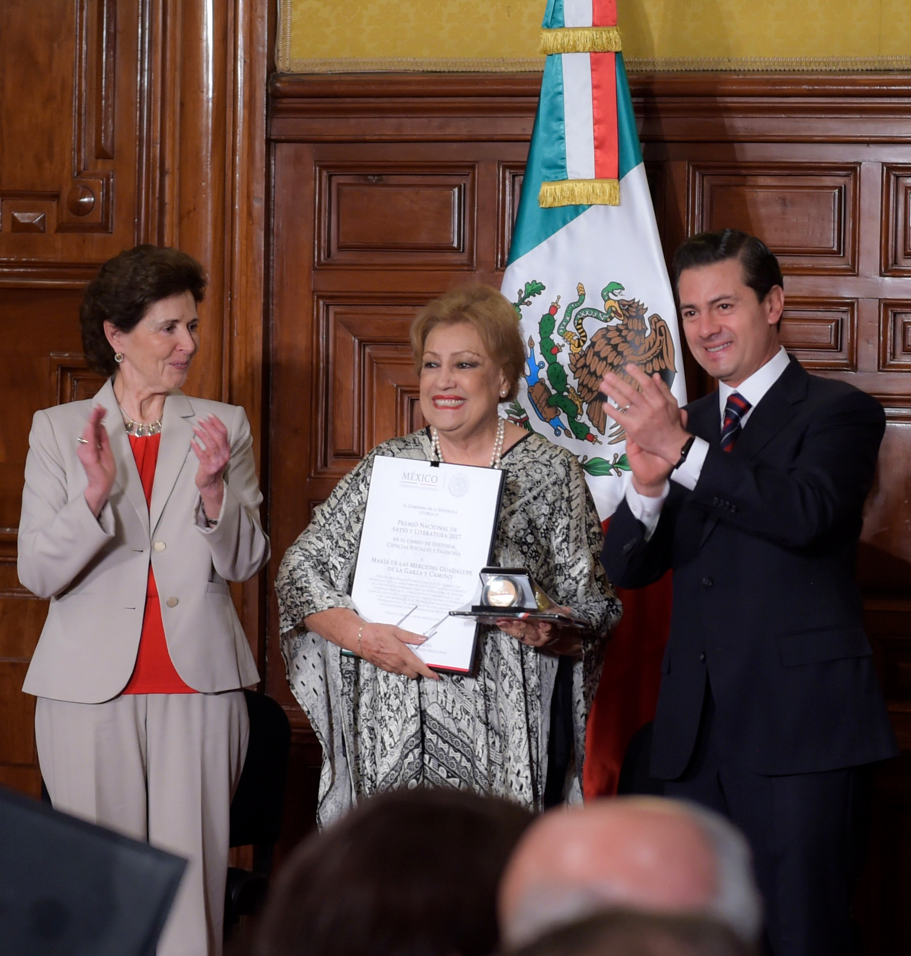 Mercedes de la Garza Camino receiving Arts and Literature National Prize 2017 from president Enrique Peña Nieto.